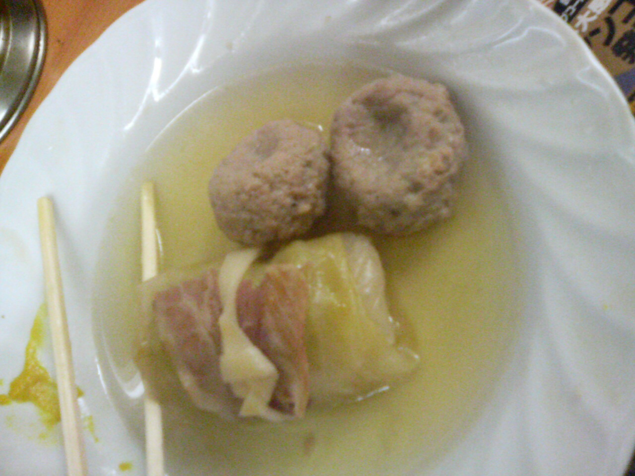 Oden at Wakamatsu restaurant: Fish ball 90 yen; meatball wrapped with cabbage 100 yen(January, 2007). In Kami-ikebukuro, Tokyo, Japan